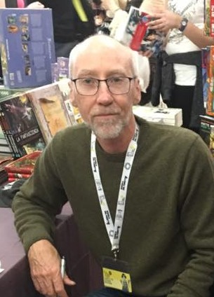 Steven Erikson at Lucca Comics signing in Italy. 2016.